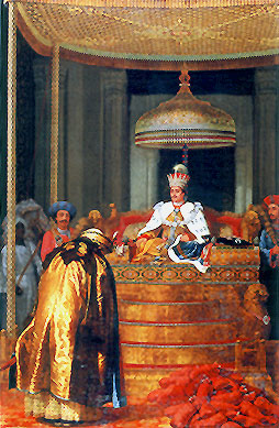 'Ghazi-ud-Din Haider, King of Awadh, receiving Tribute', by Robert Home, oil on canvas, 241 X 156 cm.